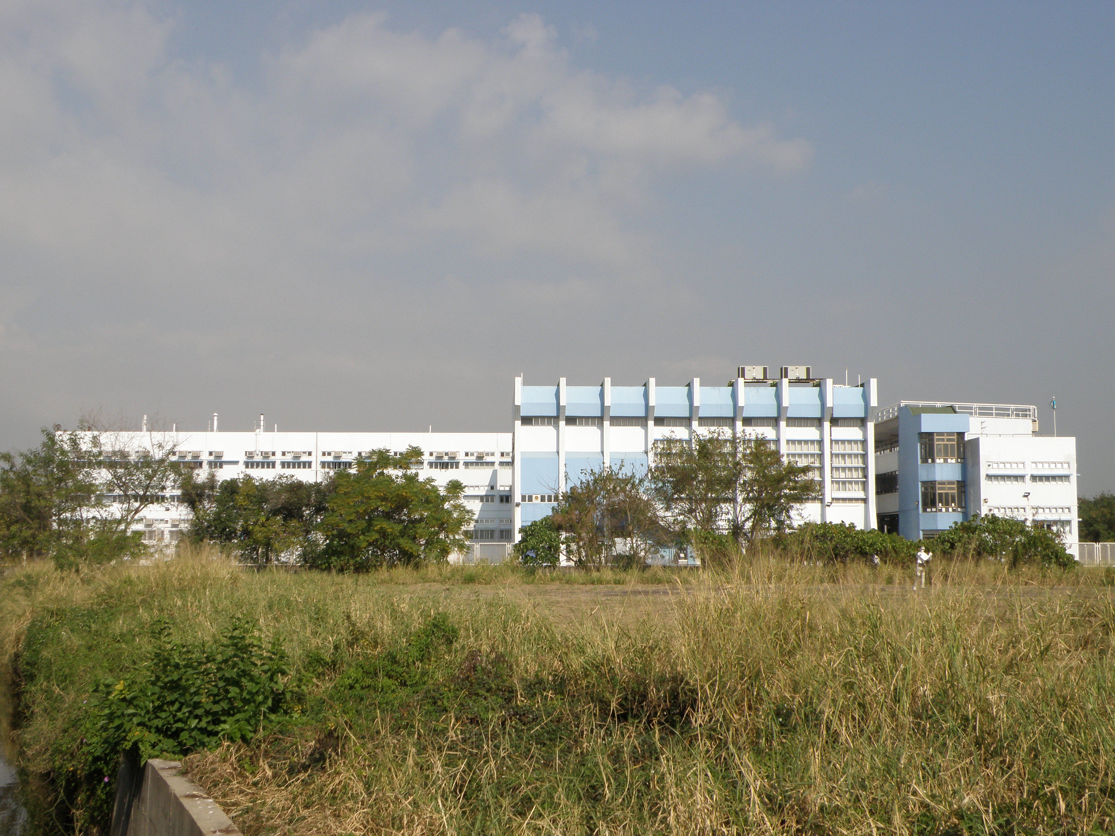 Bethel High School in Tai Sang Wai, Hong Kong.